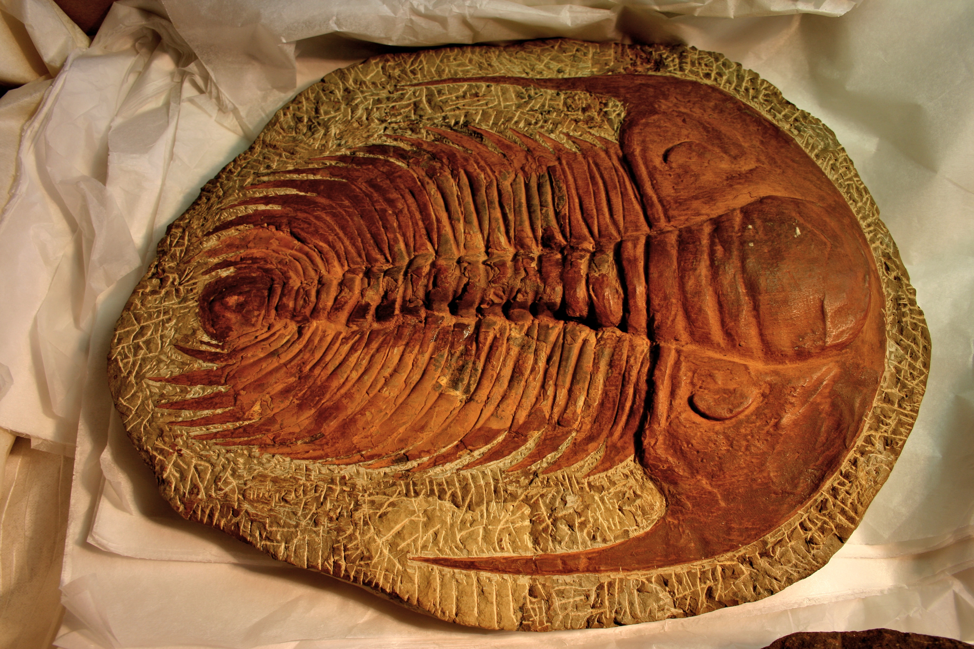 Trilobite (Paradoxides sp.). Acadoparadoxides, possibly A. briareus, a large trilobite from about 500 million years ago from Morocco, North Africa (Middle Cambrian).